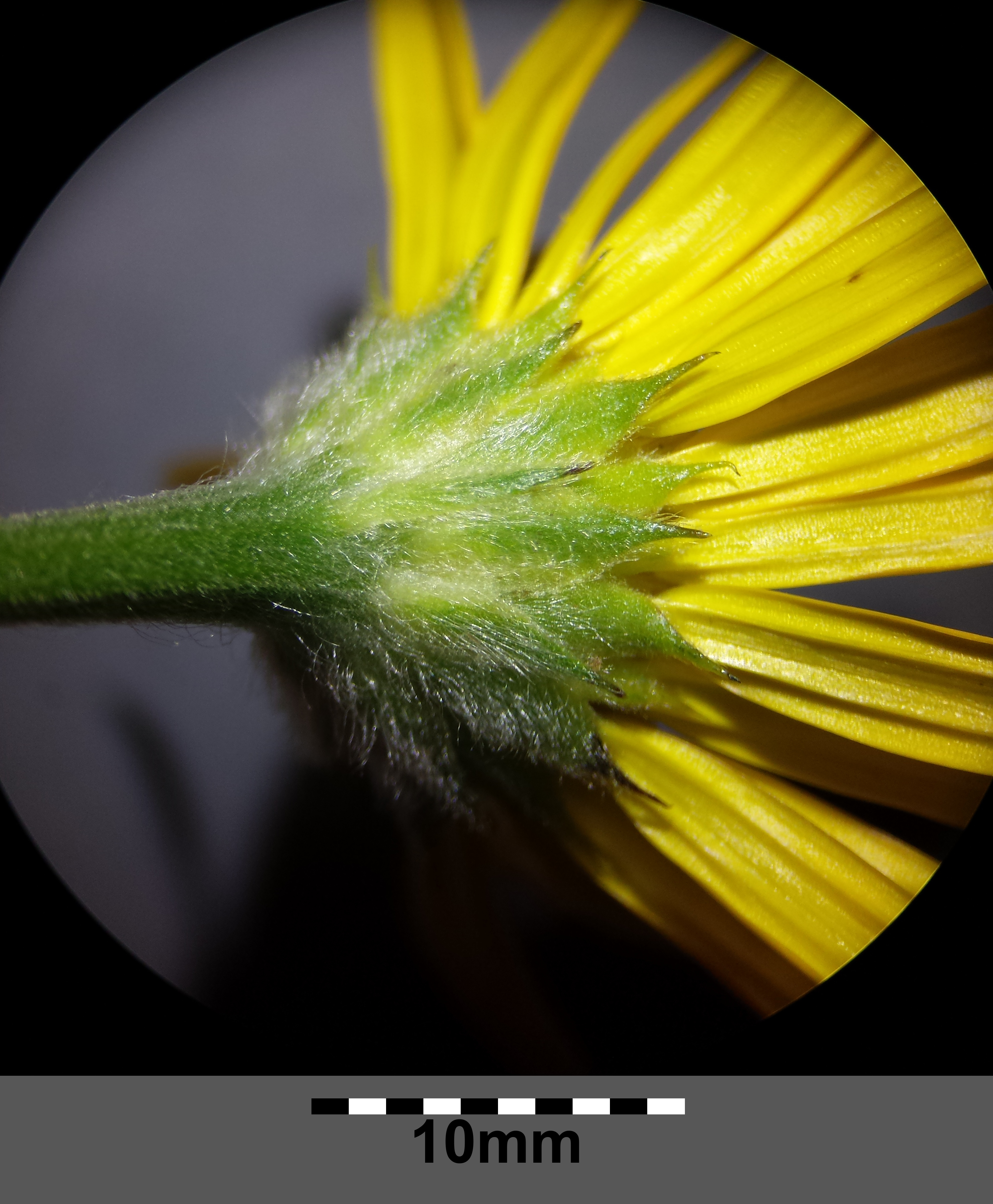 Involucral bracts Taxonym: Buphthalmum salicifolium ss Fischer et al. EfÖLS 2008 ISBN 978-3-85474-187-9 Location: Steinberg near Niederhollabrunn, district Korneuburg, Lower Austria - ca. 375 m a.s.l. Habitat: semi-dry grassland